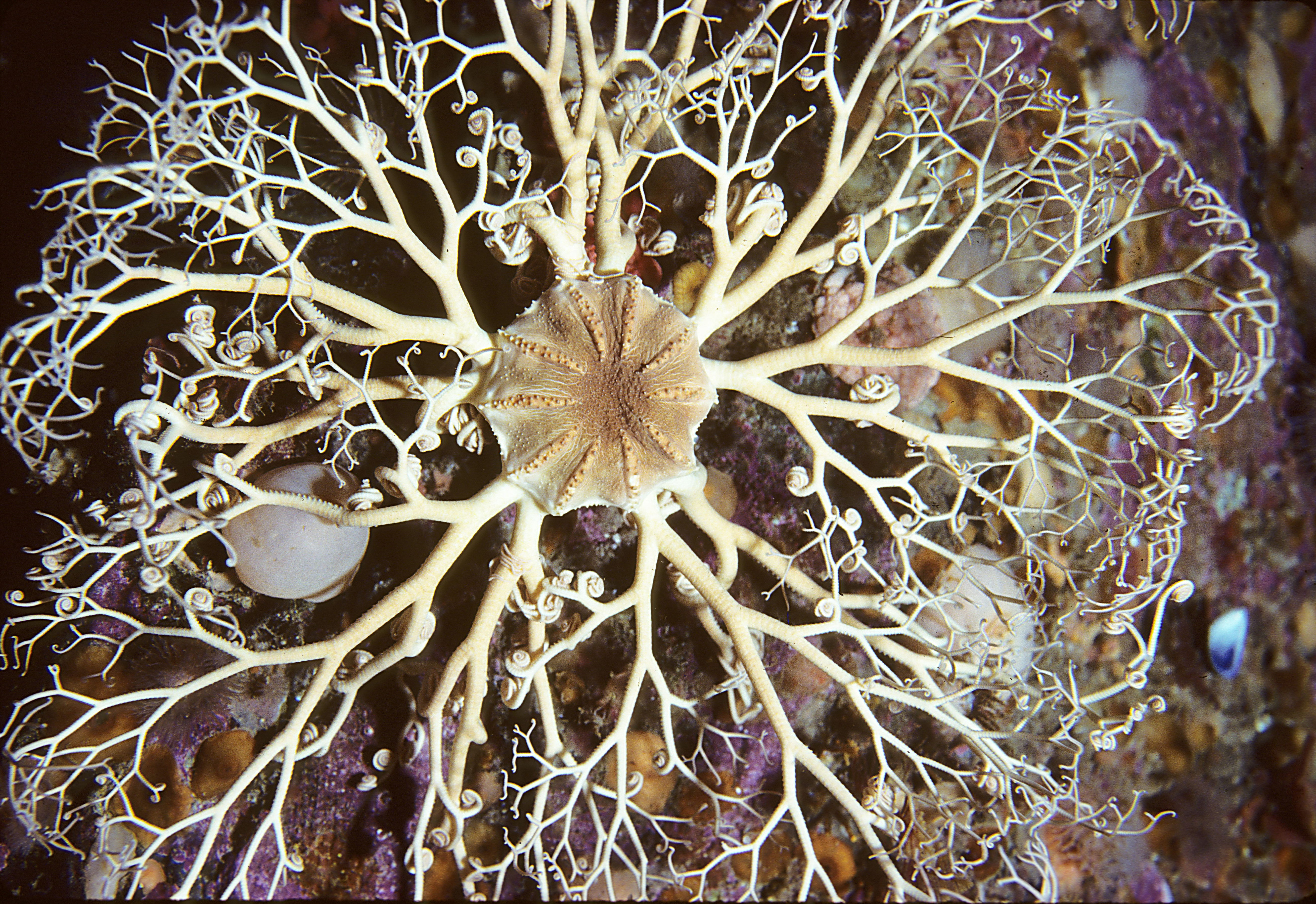 Northern basket star, Gorgonocephalus arcticus, off Cape St Francis, Newfoundland, Canada